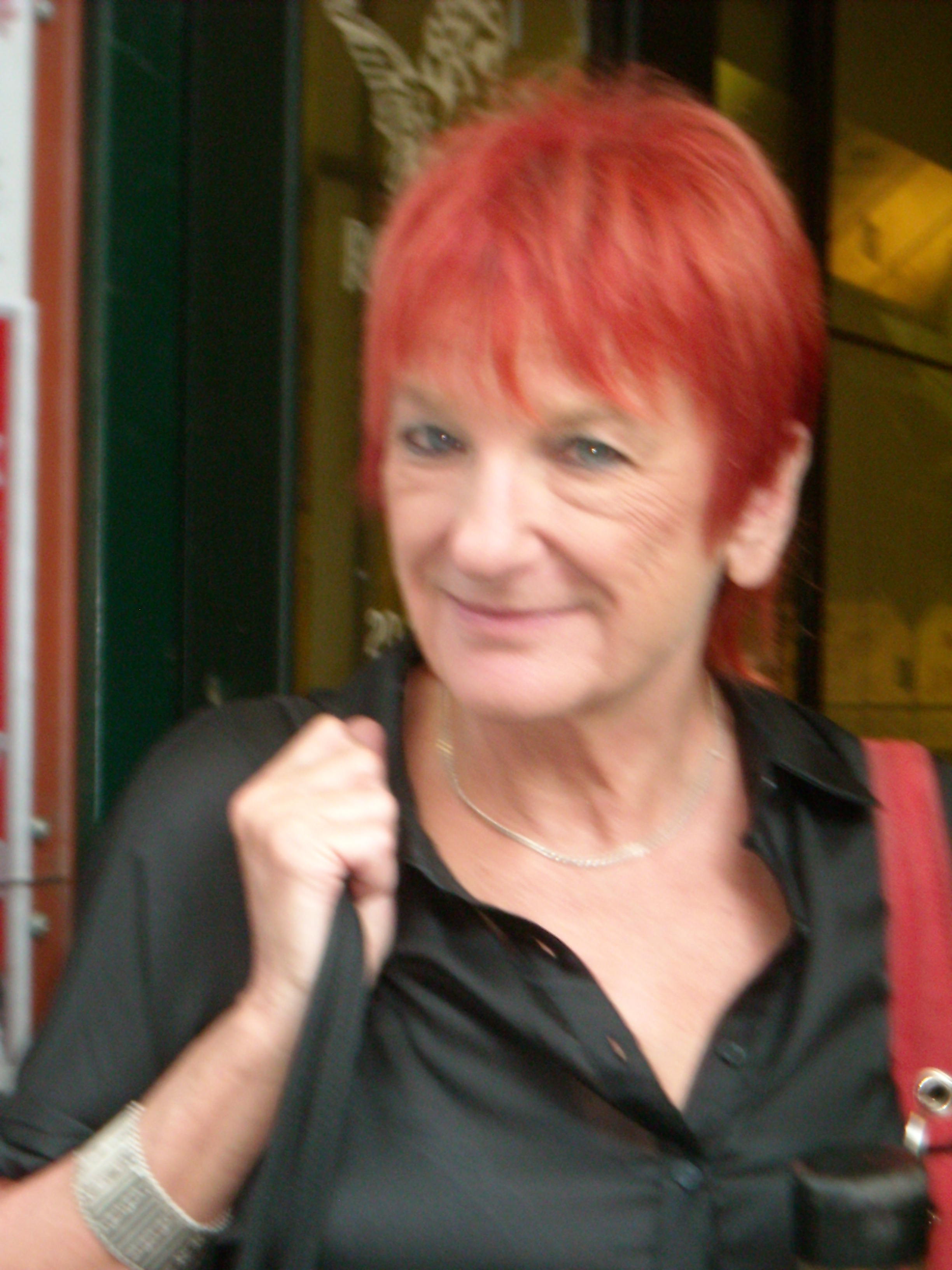 Jana Koubková at the entrance of Reduta Jazz Club on Národní st. in Prague, Czech Republic.